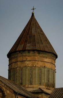 Svetitskhoveli Cathedral Dome